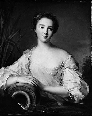 Reportedly, the canvas was signed and dated 1738 on the reverse. The traditional identification of the sitter as Louise Henriette de Bourbon-Conti (1726-1759) is not tenable and the picture, which is rather loosely and fluidly painted, was probably made for the art market.